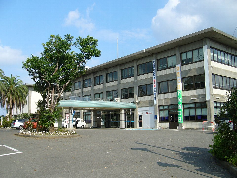 Tateyame City Hall, Tateyama, Chiba, Japan